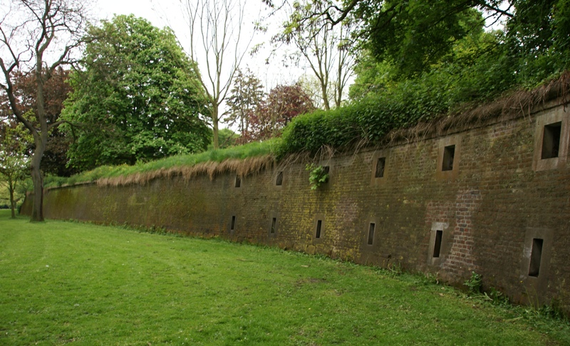 National monument no. 28020 - fortification Waldeck, Maastricht, The Netherlands